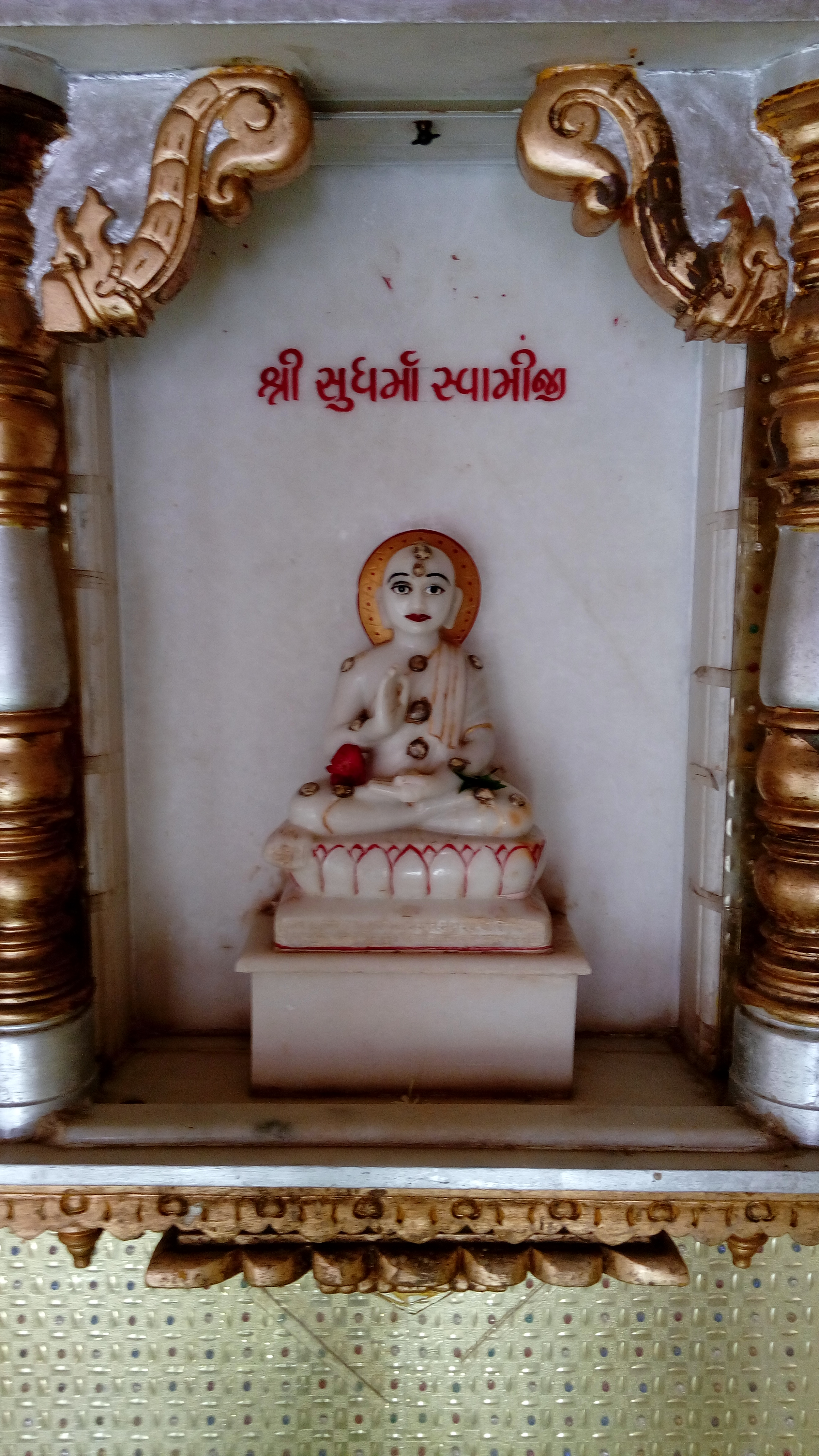 Sudharma Swami was a fifth Ganadhara (chief disciple) of Mahavira, the last Tirthankara of Jainism, a religion from India